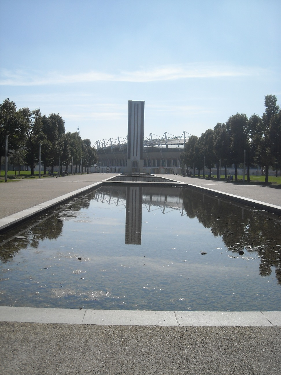 Piazza d'Armi park, Turin, Italy: the Maratona tower and the artificial lake